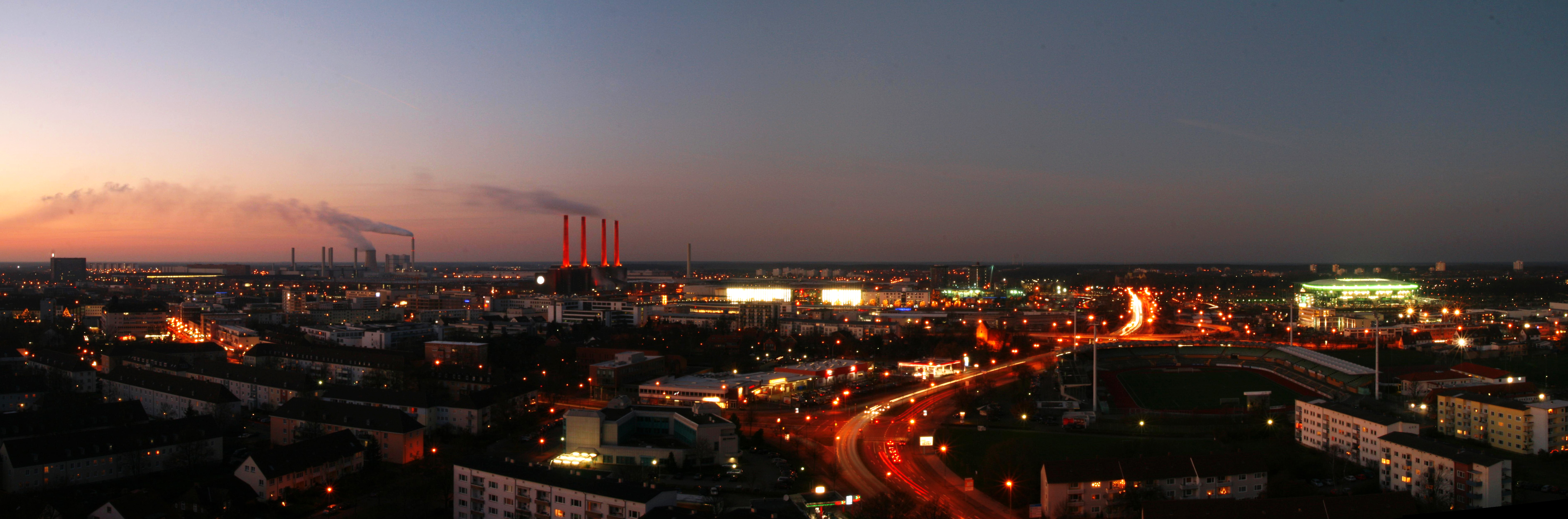 Wolfsburg panorama at dusk, viewed from Schillercenter